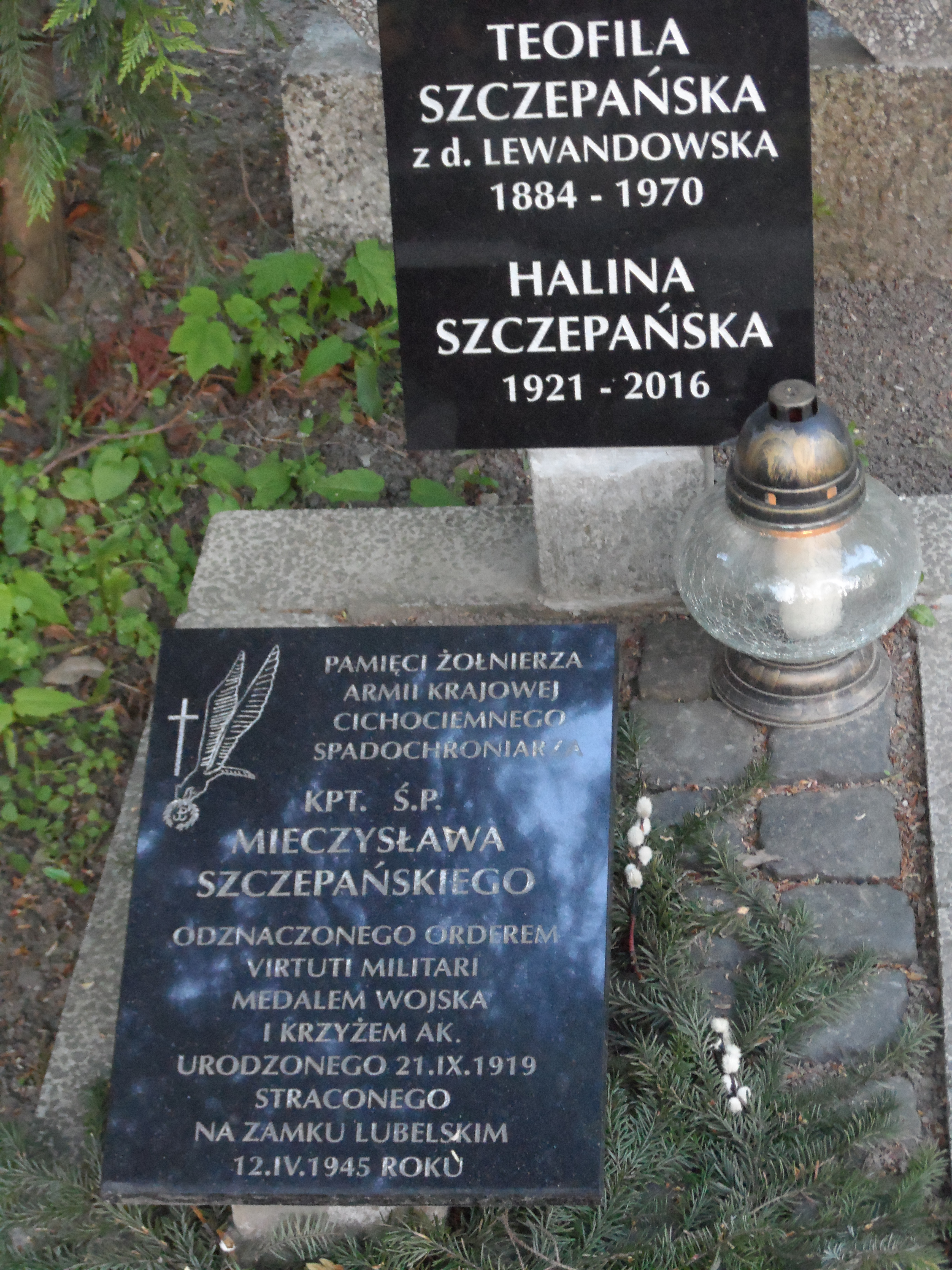 Commemorative plaque of captain Mieczysław Szczepański on the grave his mother, Teofila Szczepańska nee Lewandowska (1884-1970) and his sister, Halina Szczepańska (1921-2016).